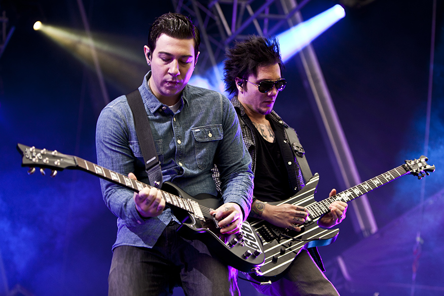 Zacky Vengeance and Synyster Gates of Avenged Sevenfold, live in Bergen, Norway - 2011